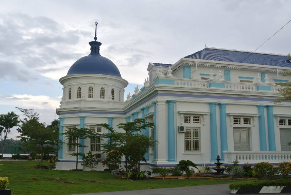 Sultan Ibrahim Jamek Mosque